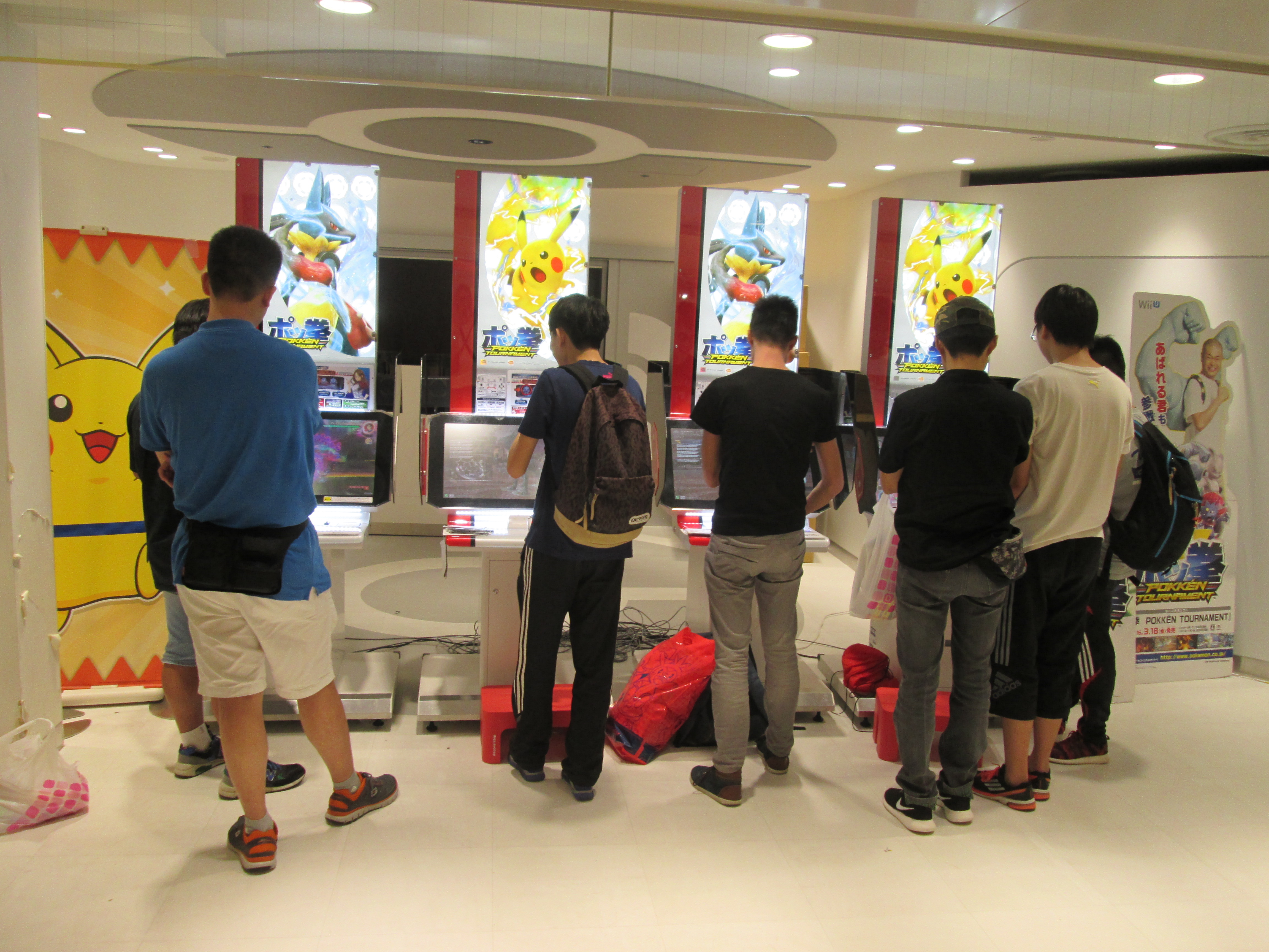 Mega Tokyo Pokémon Center, Sunshine City, Ikebukuro